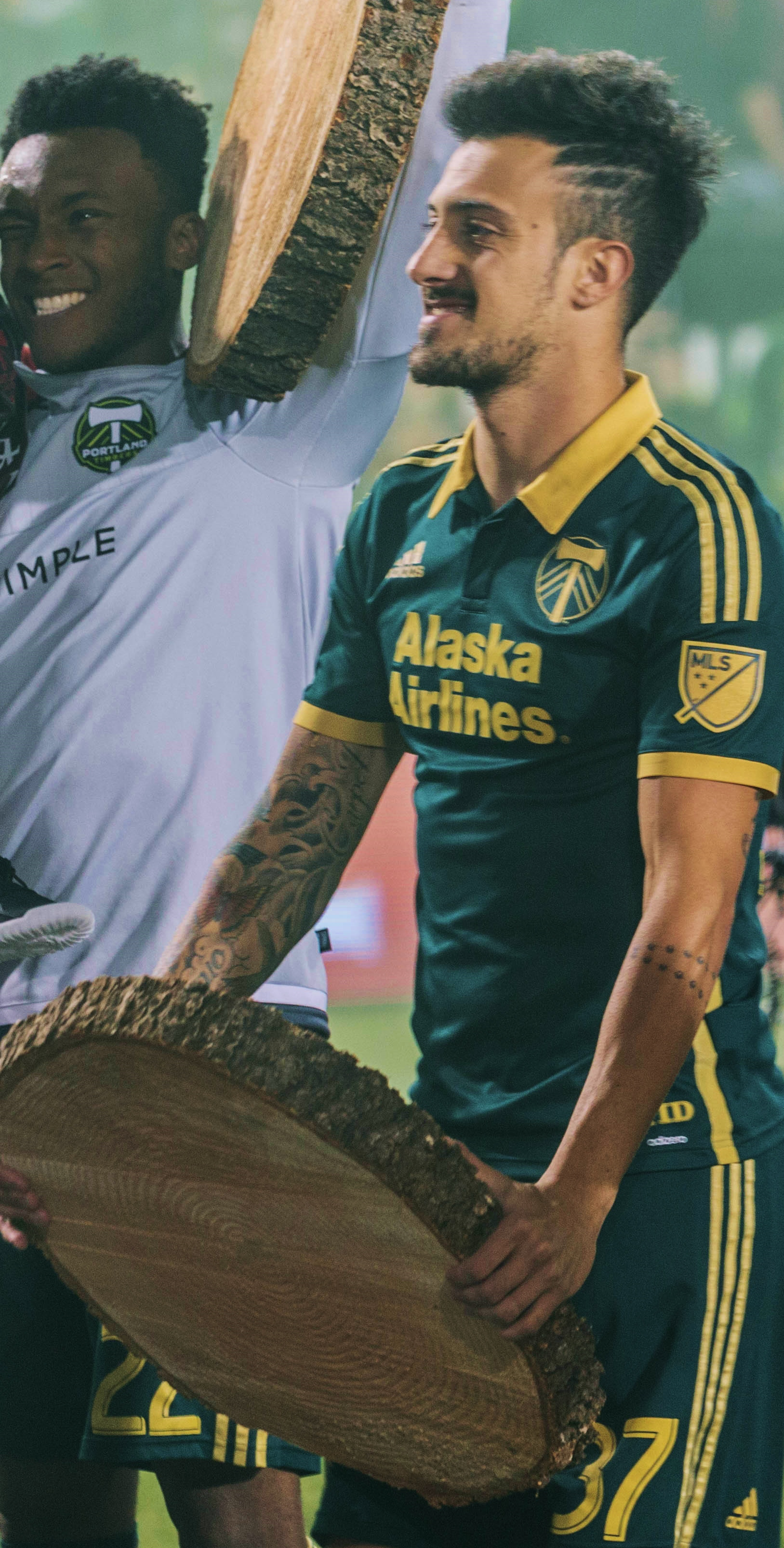 Maximiliano Urruti